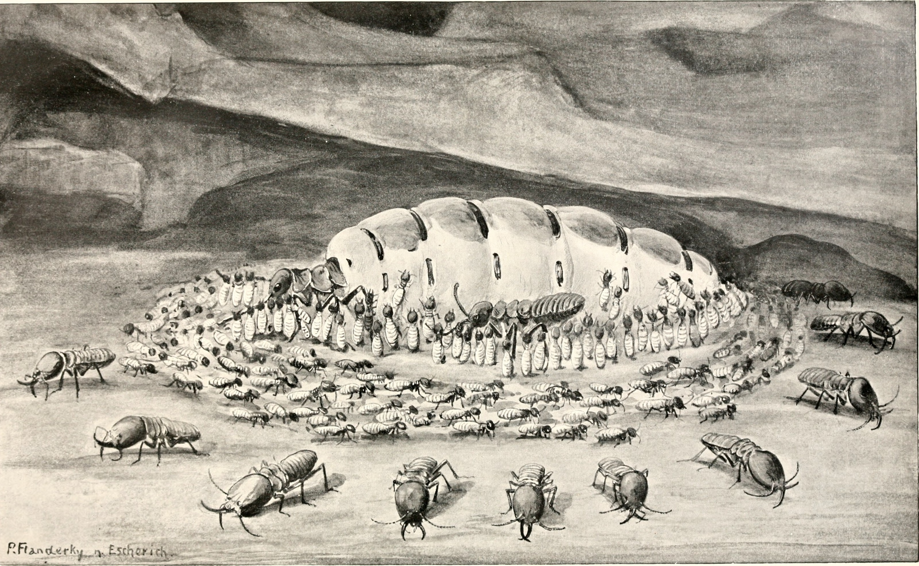 Illustration of Termites castes. In the middle the actual egg laying queen showing Physogastrism.